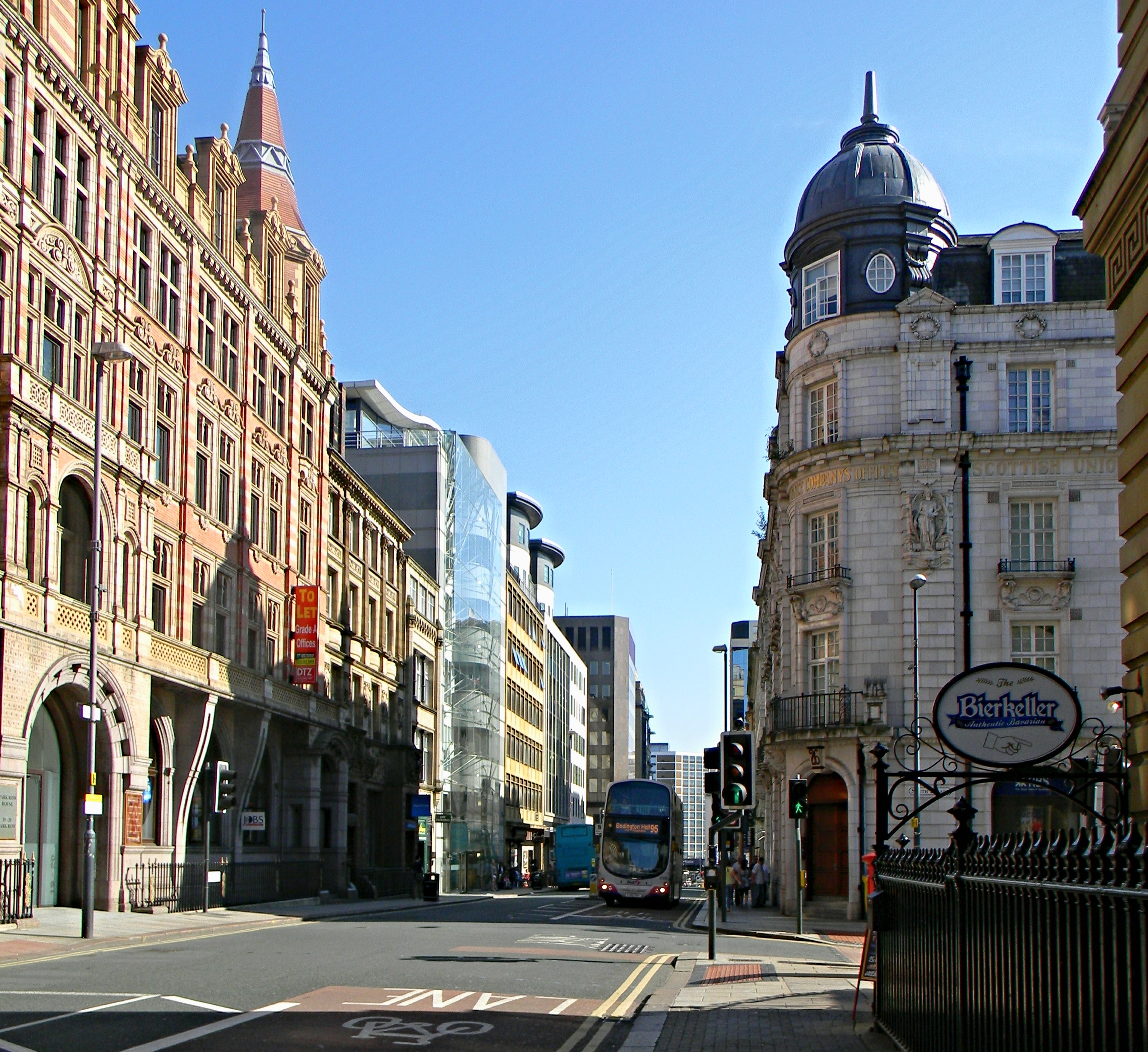 Park Row in Leeds, West Yorkshire, England.